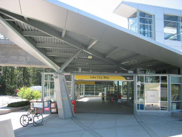 SkyTrain Millennium Line Lake City Way Station in Burnaby, British Columbia, Canada.中文（香港）: 加拿大卑詩省本拿比的架空列車湖城路站。